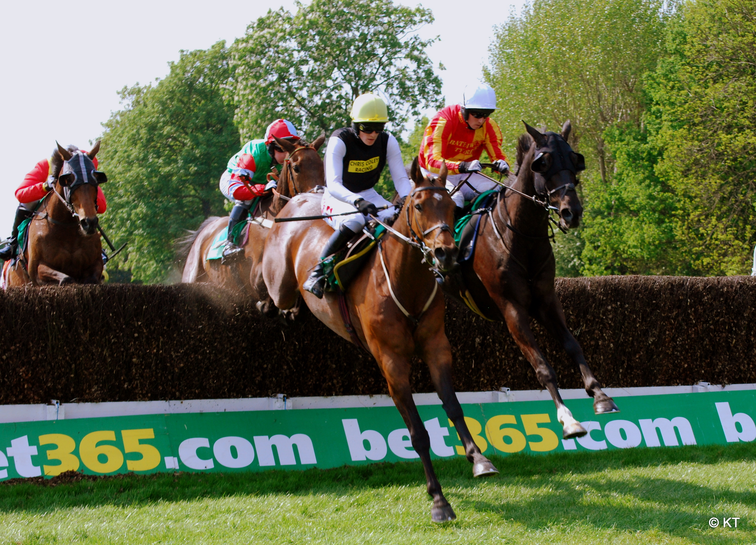 Aintree winner Baby Run (3rd) and Gentle Ranger jump the last of the railway fences. Faasel (2nd) and Aimigayle (8th) behind. The race was won by Poker de Sivola, still some way behind at this point! The bet365 Gold Cup, Sandown, April 2011.